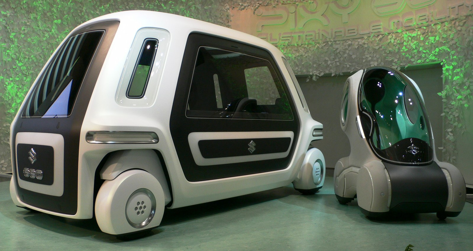 left side :Suzuki_Kizashi2 right side : Suzuki Pixy photographed in Tokyo Motor Show 2007